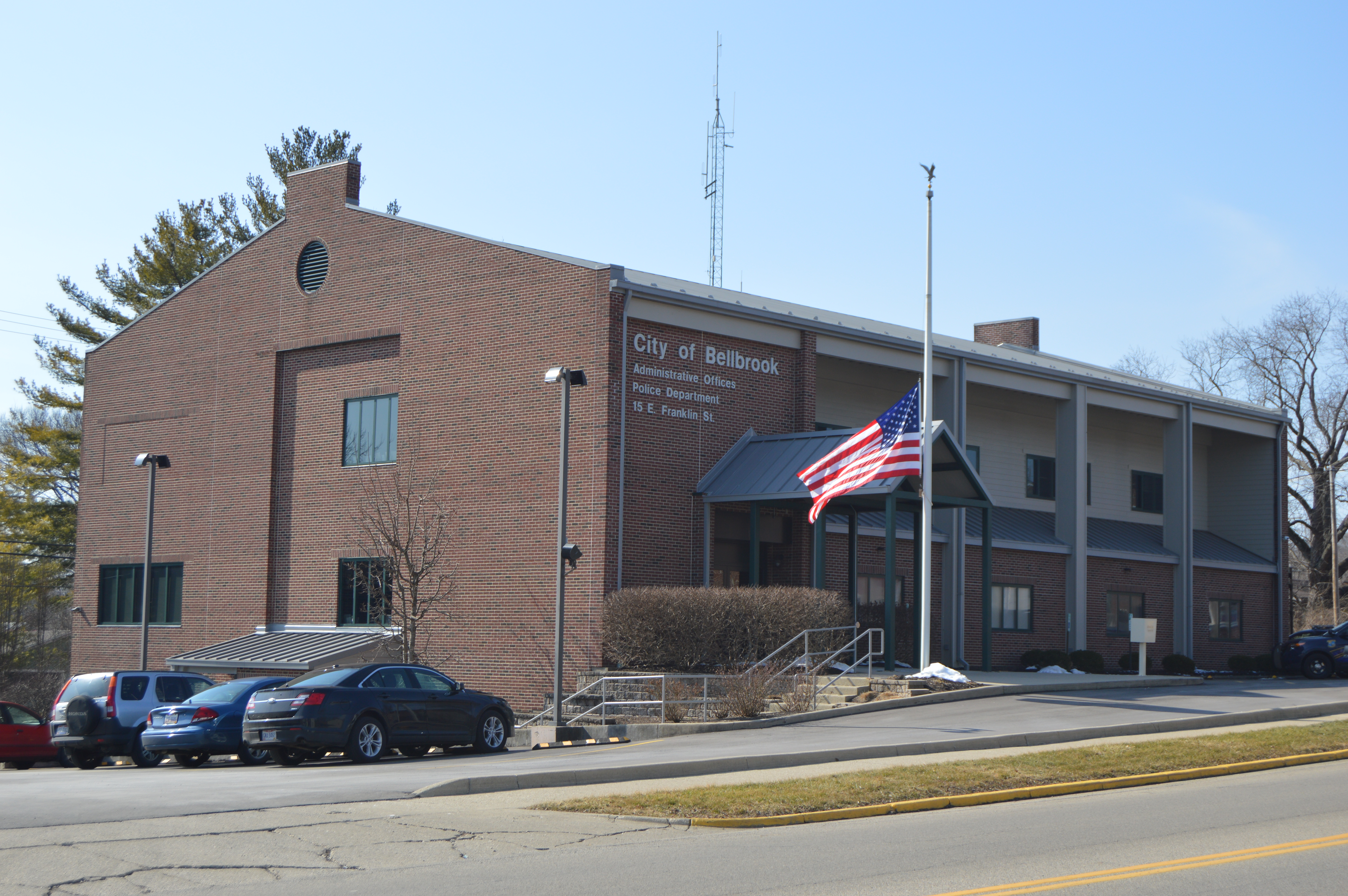 Front and eastern side of City Hall in Bellbrook, Ohio, United States, located at 15 E. Franklin Street (State Route 725).